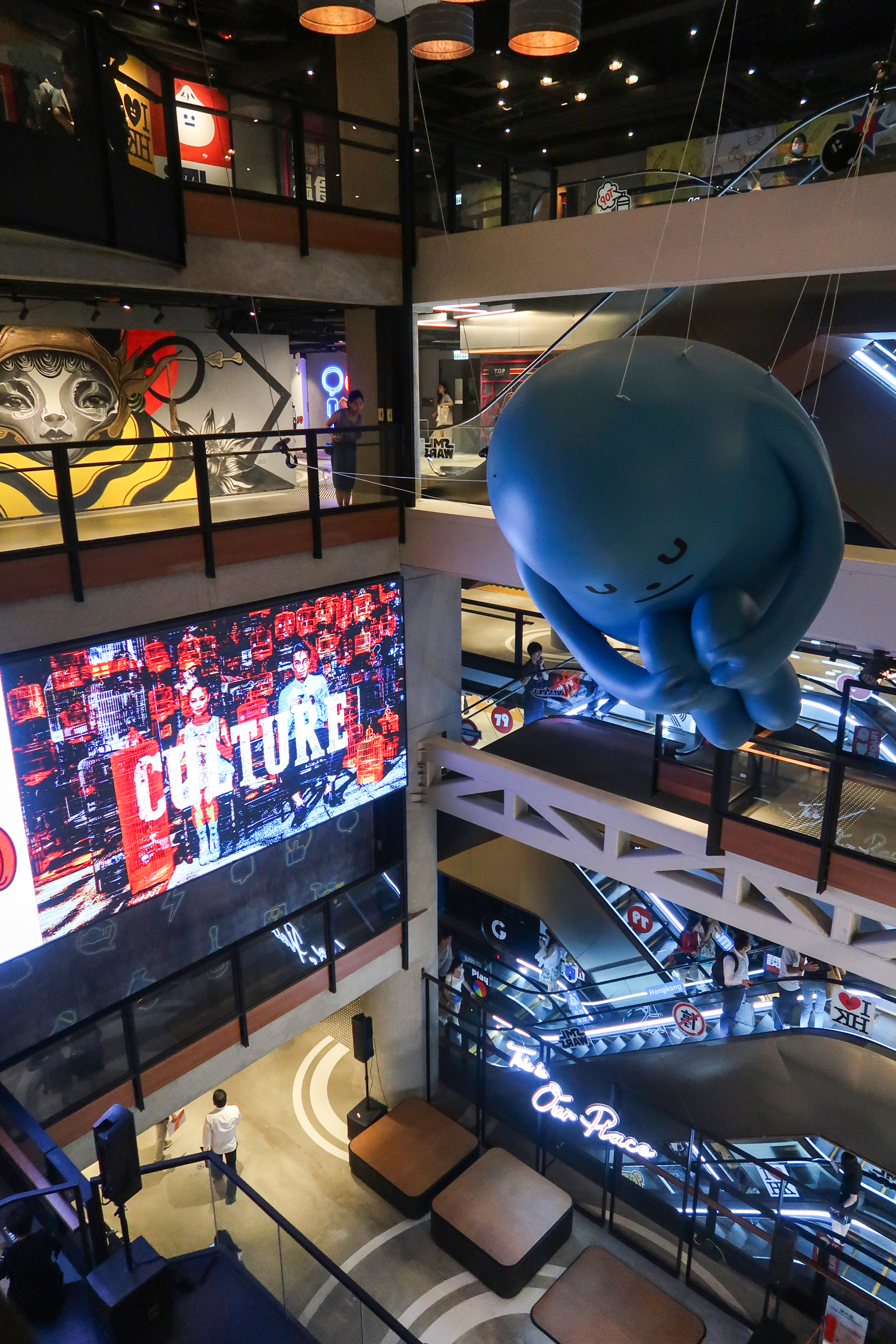 T.O.P This is Our Place Atrium